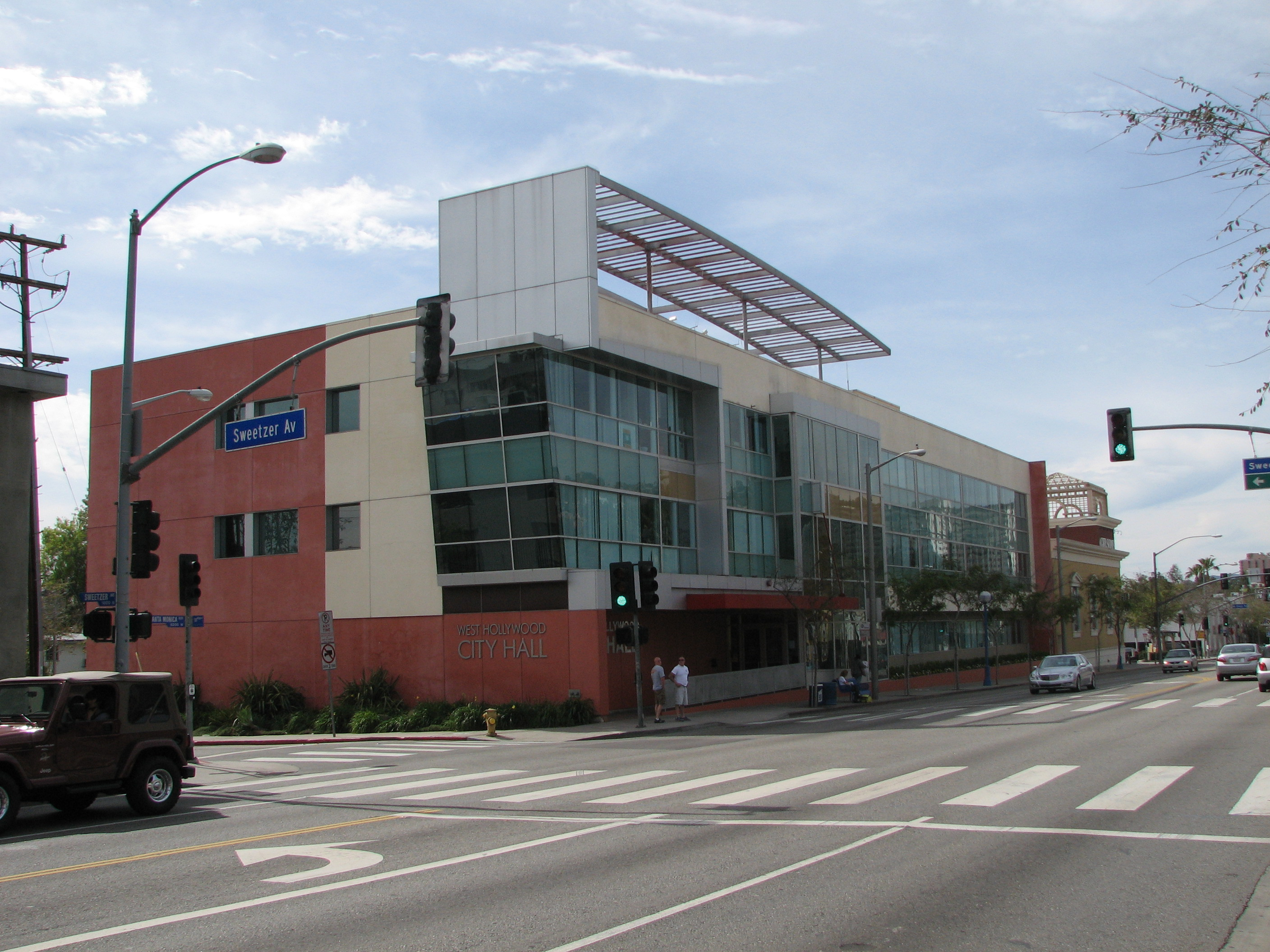 The West Hollywood City Hall, West Hollywood, California. Sunday, March 4, 2007, Douglas McLaughlin